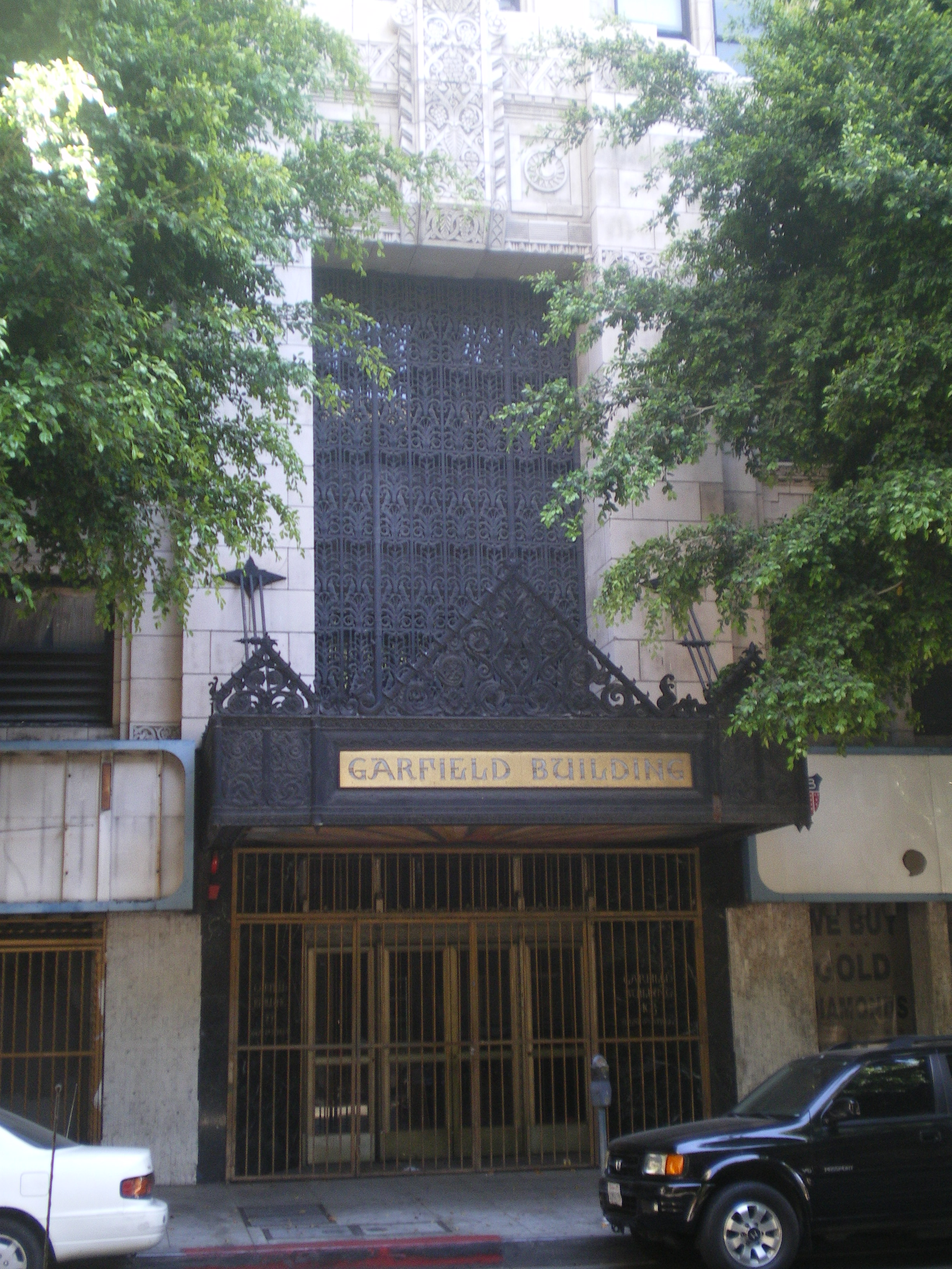 Garfield Building Entrance, Los Angeles